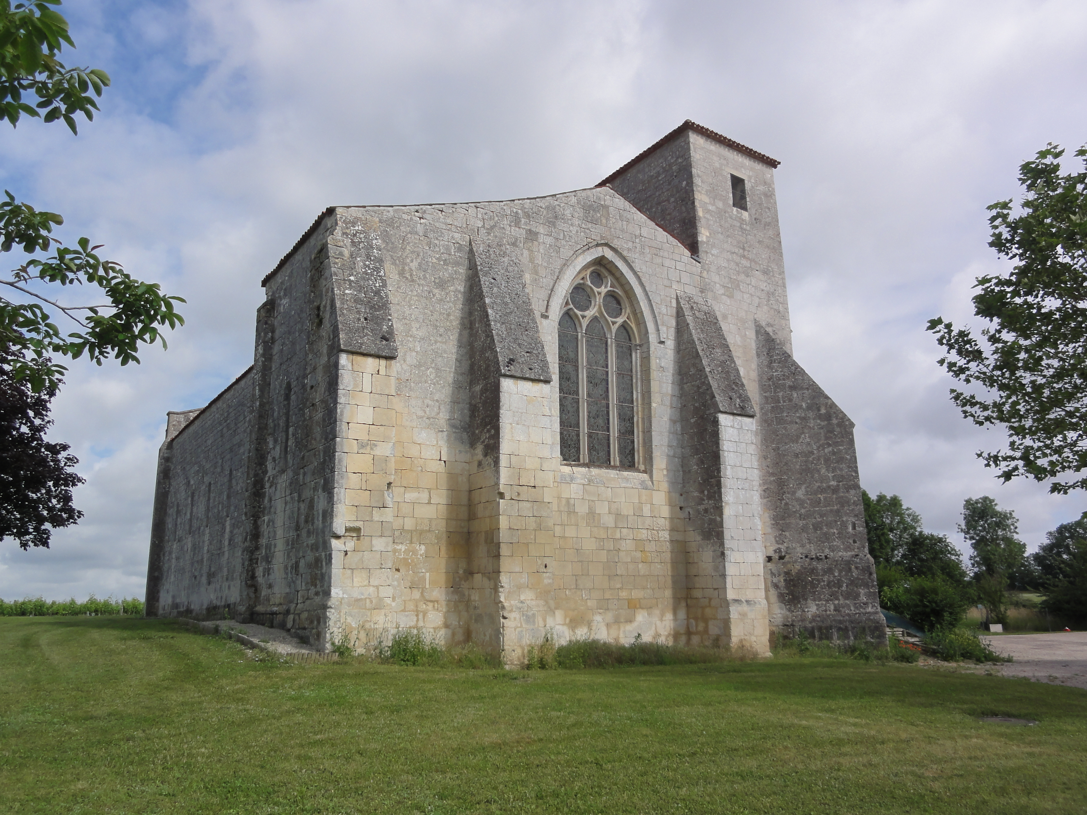 Saint-Léger (Charente-Maritime) église chevet